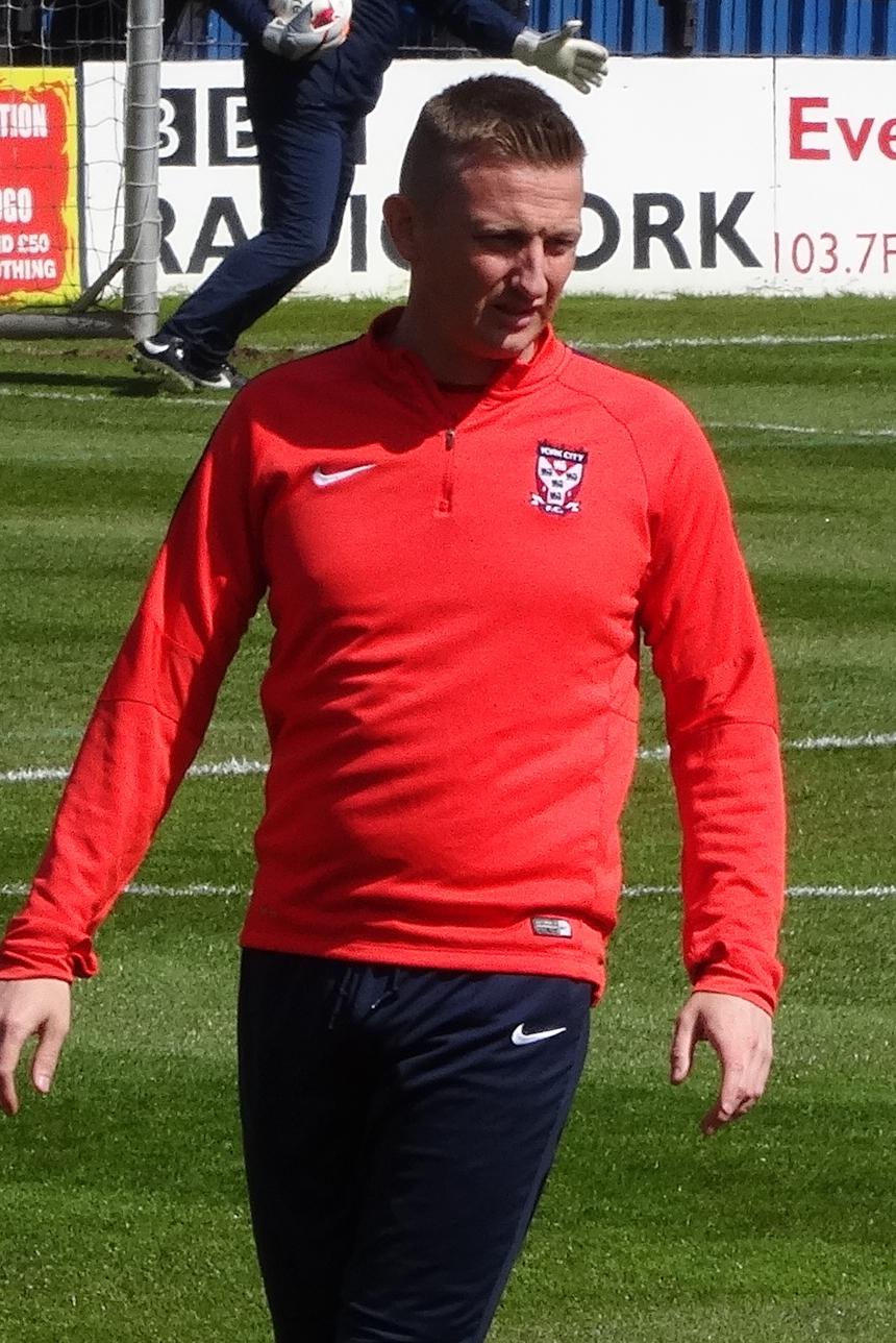 Derek Riordan training with York City before their match against Bristol Rovers at Bootham Crescent, York on 30 April 2016